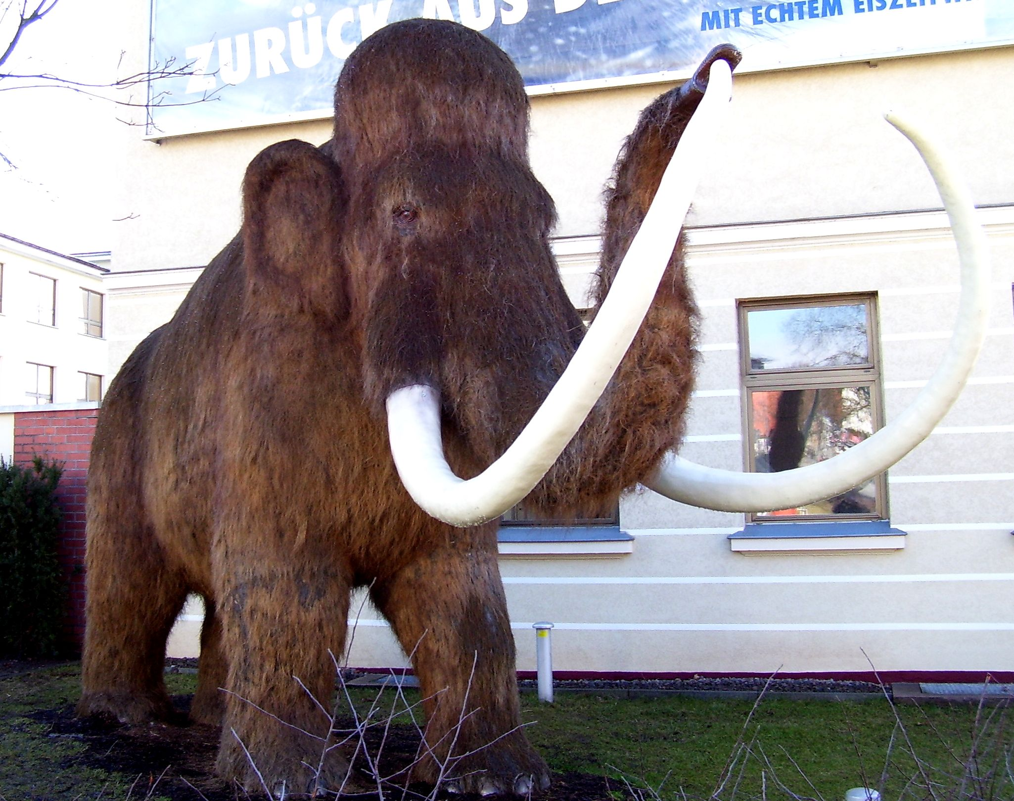 A model of a mammoth in Nordhausen, Germany. Pic made by J C D 15:51, 27 March 2006 (UTC)